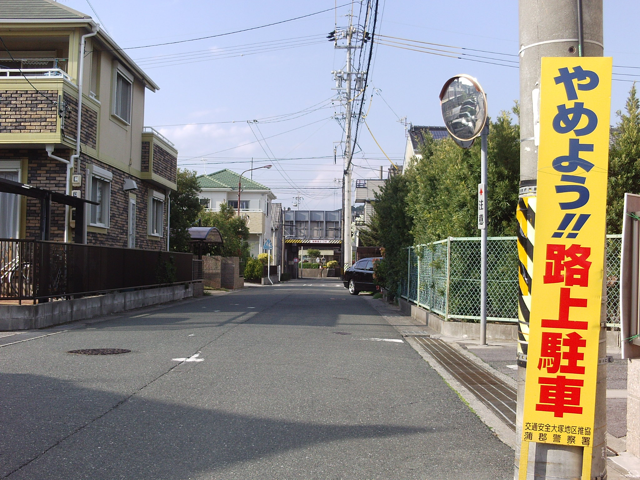 Aichi prefectural road No.372 in Otsukacho, Gamagori, Aichi.